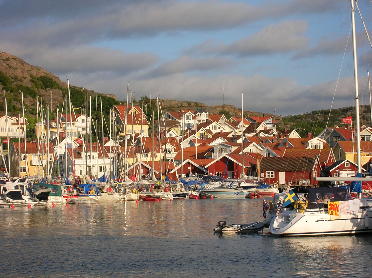 The harbour in Hunnebostrand on the Swedish westcoast.